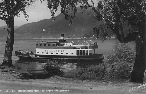 The car ferry MF Folgefonn in Hardanger. 1940s.